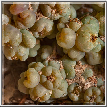 This is a close-up image of the fruits of the plant Bienertia Cycloptera.